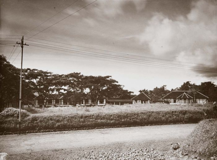 Hospital